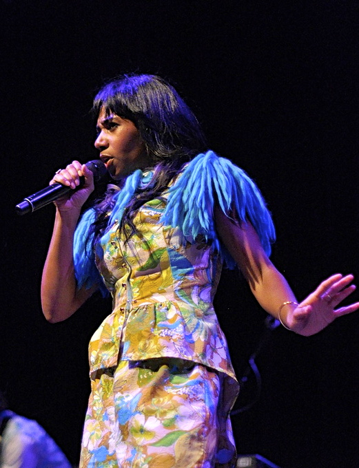 Santigold performing at Boston House of Blues, June 22, 2012.